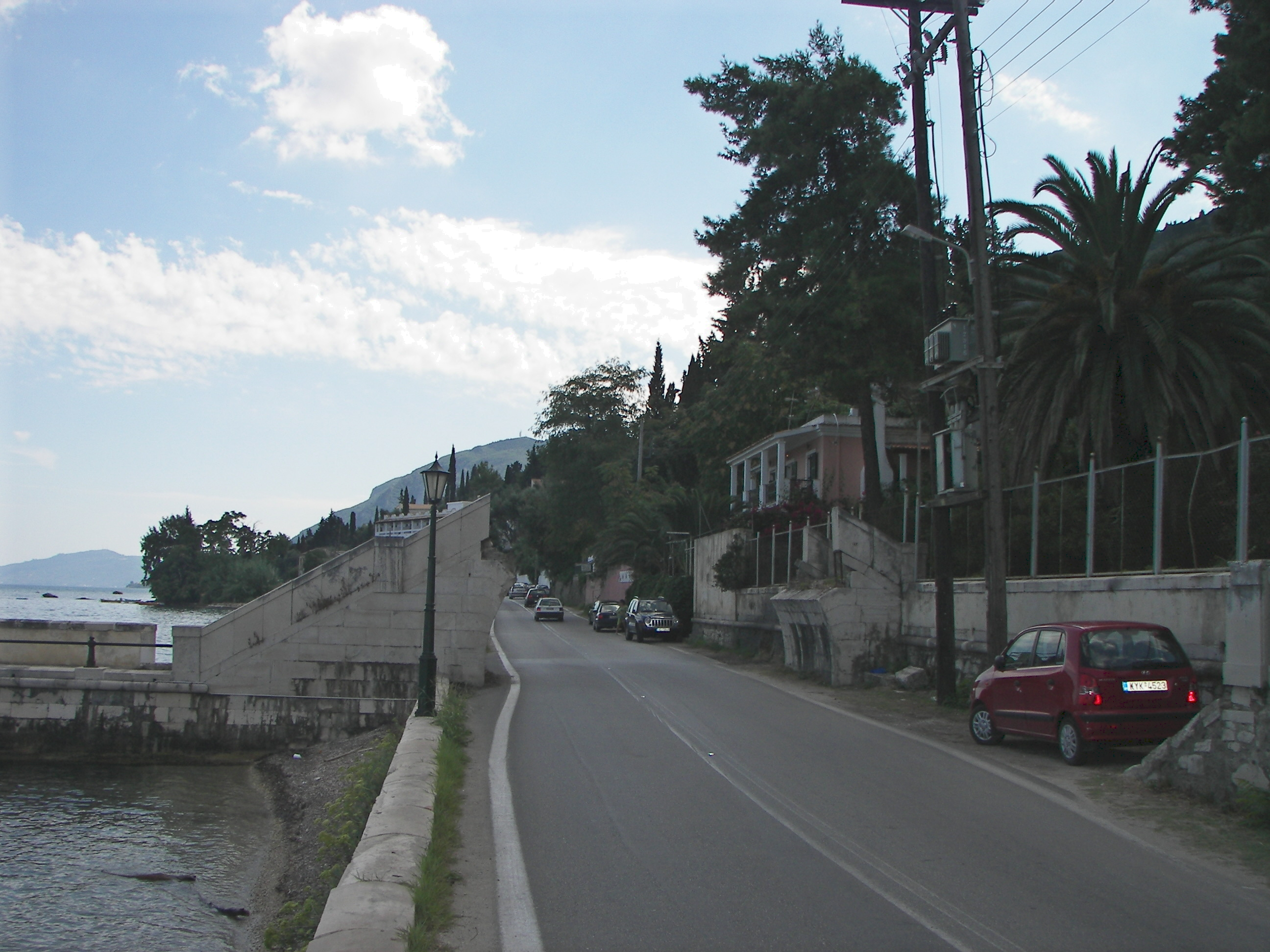 I am the author. Dr.K. 15:56, 6 September 2006 (UTC)